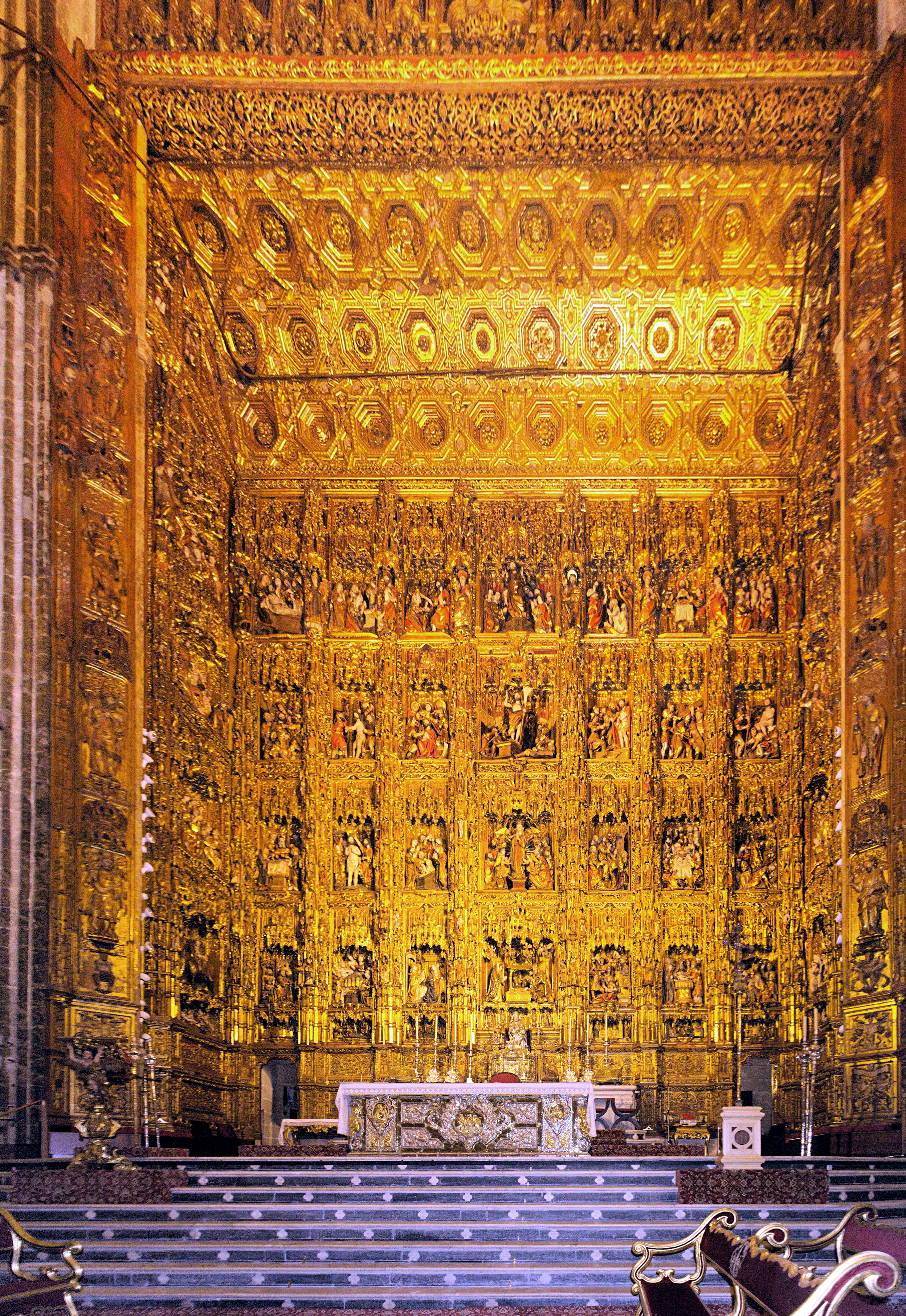 Sevilla Cathedral - Main Altar